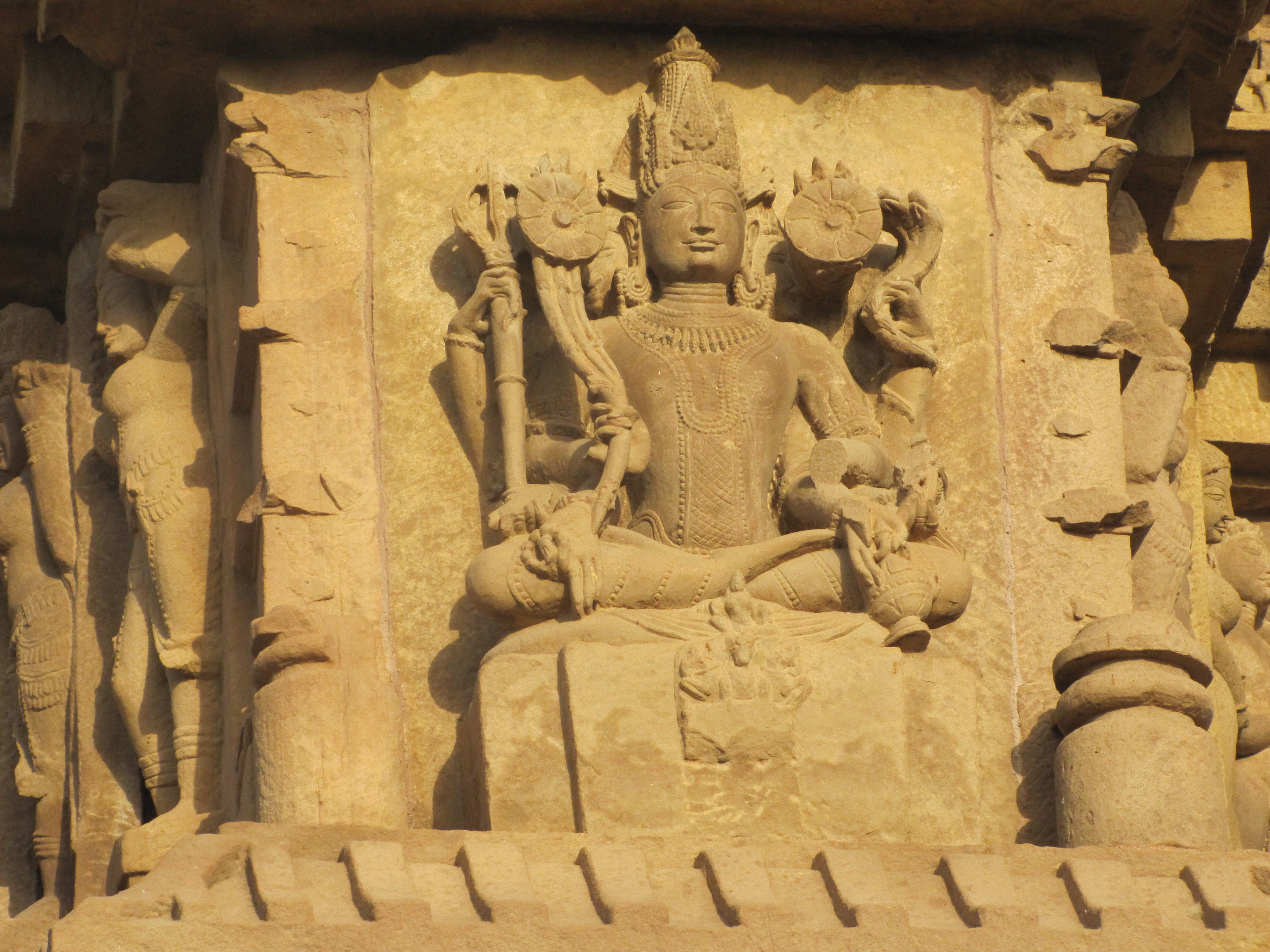 Khajuraho India, DulaDeo Temple, Sculpture Outer Wall